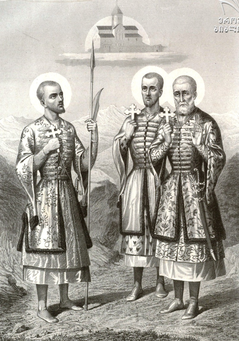 Sabinin. Sts. Bidzina, Shalva and Elizbar. 1882